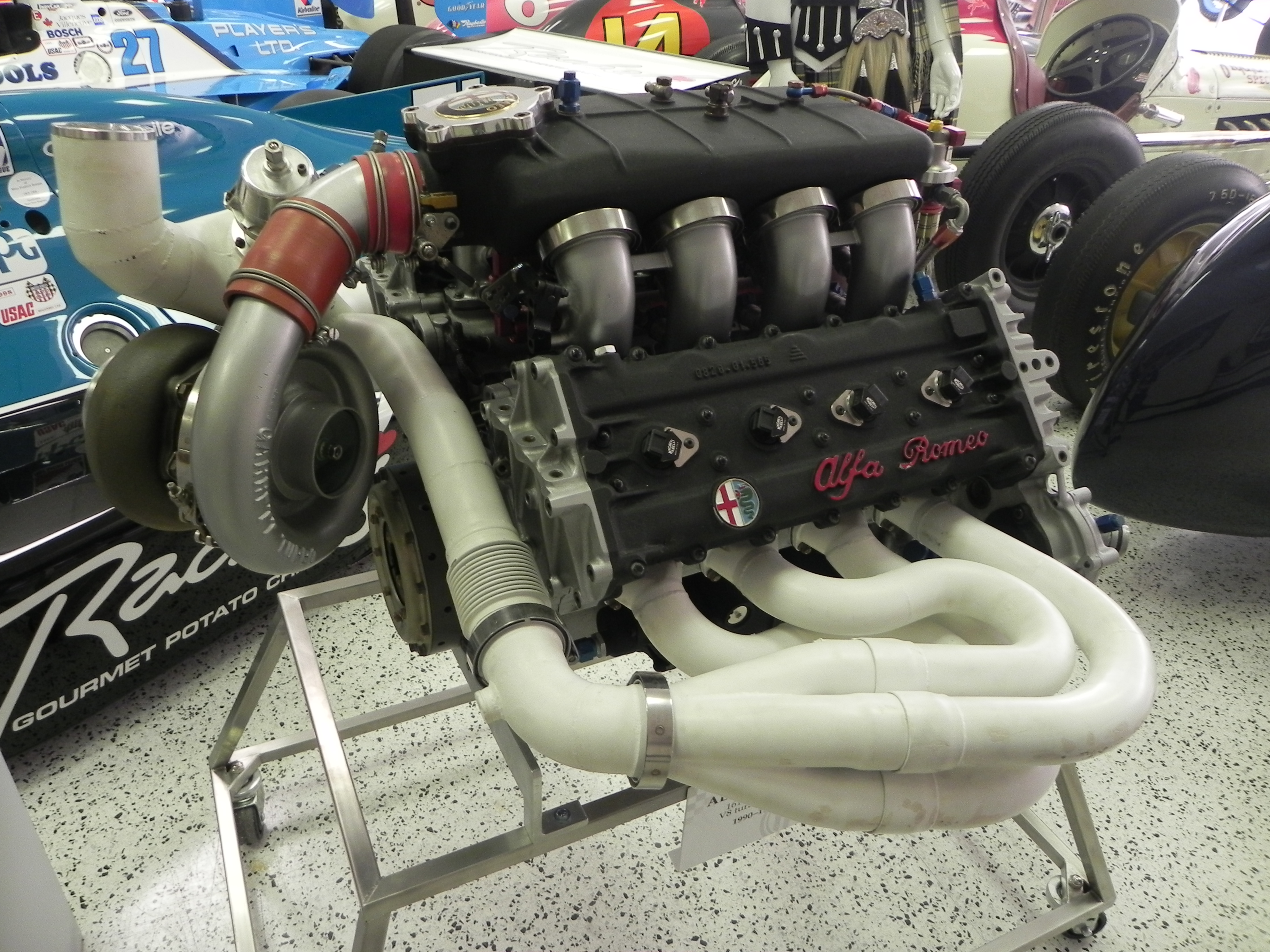 Alfa Romeo Indycar engine (1991) on display at the Indianapolis Motor Speedway Museum in Speedway, Indiana, USA.